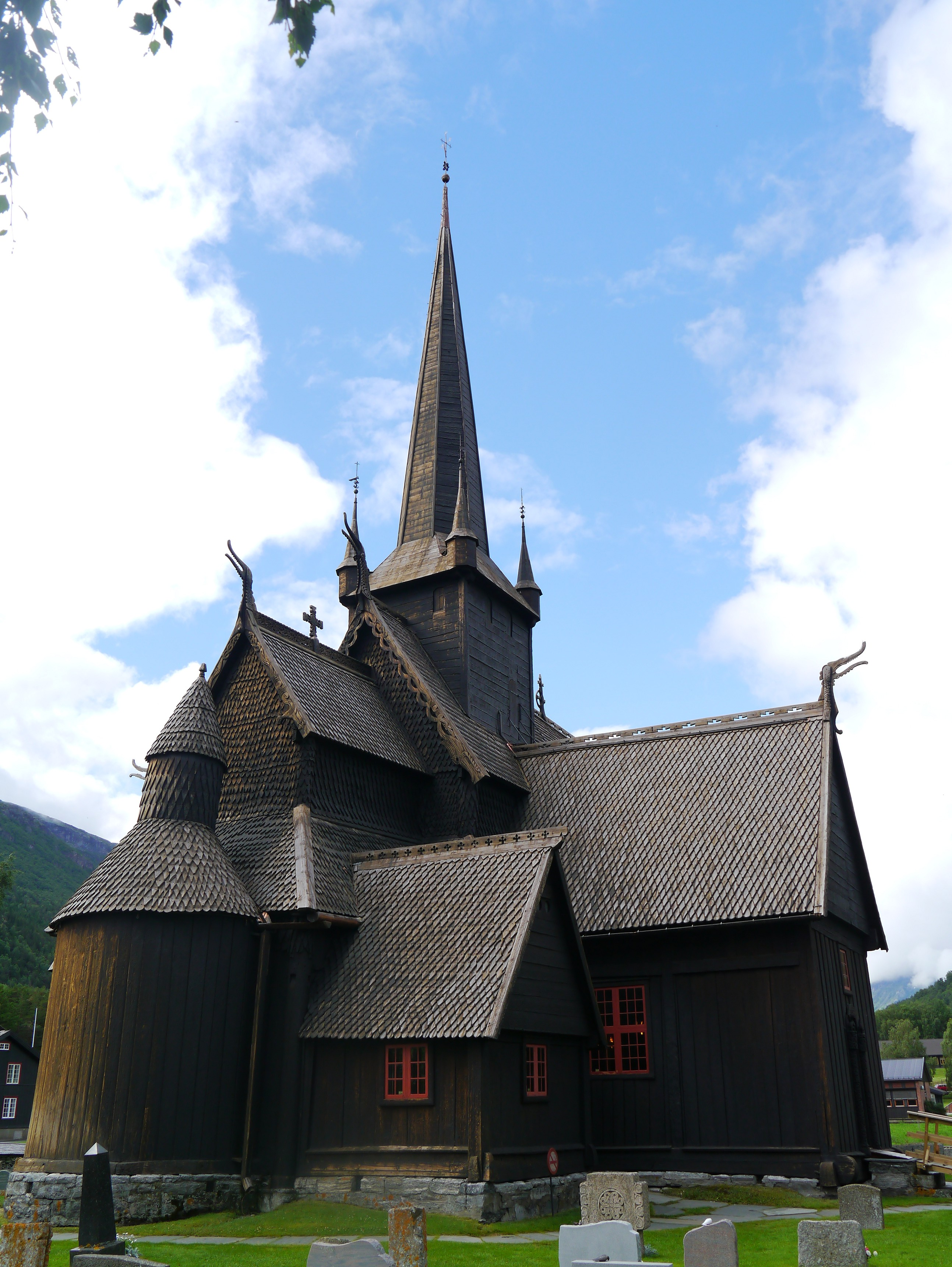 Lom Stave Church, Lom, Oppland County, Central Norway